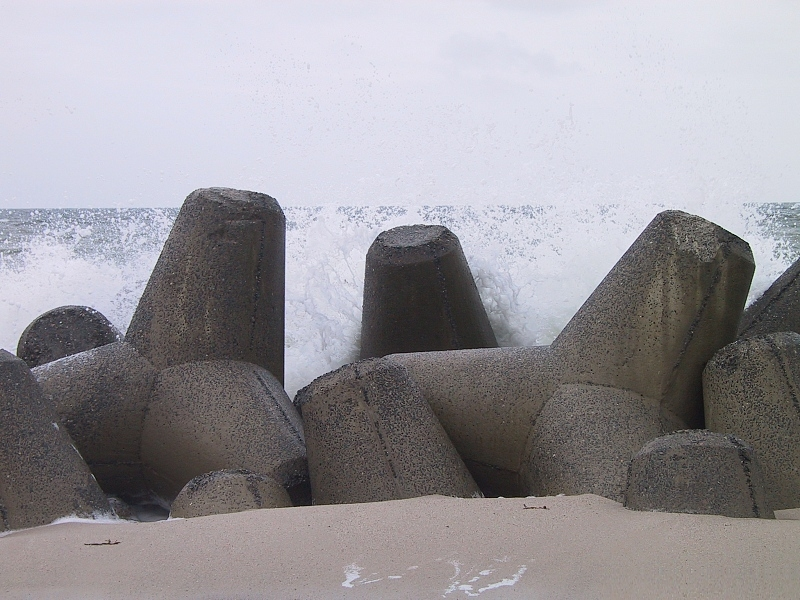 Tetrapods, Sylt, Germany